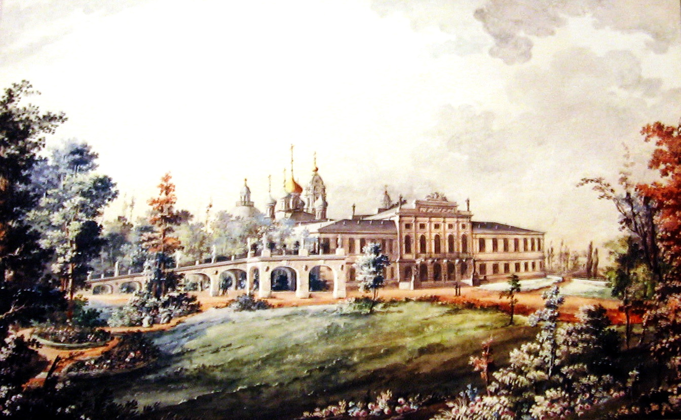 Tver Travelling palace. Watercolor painting. From the collection of the Tver State United museum.